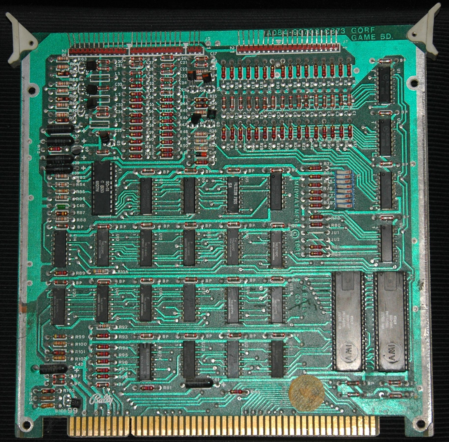 A Midway Gorf arcade game board set: the game board